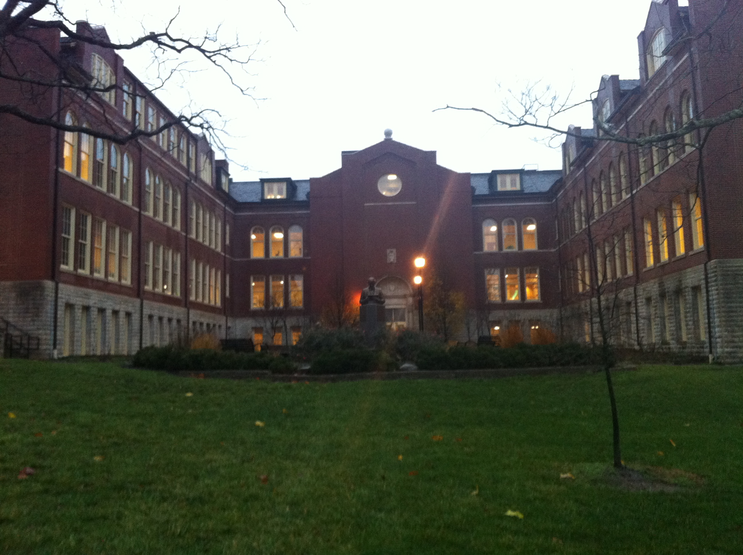 Miami University Oxford